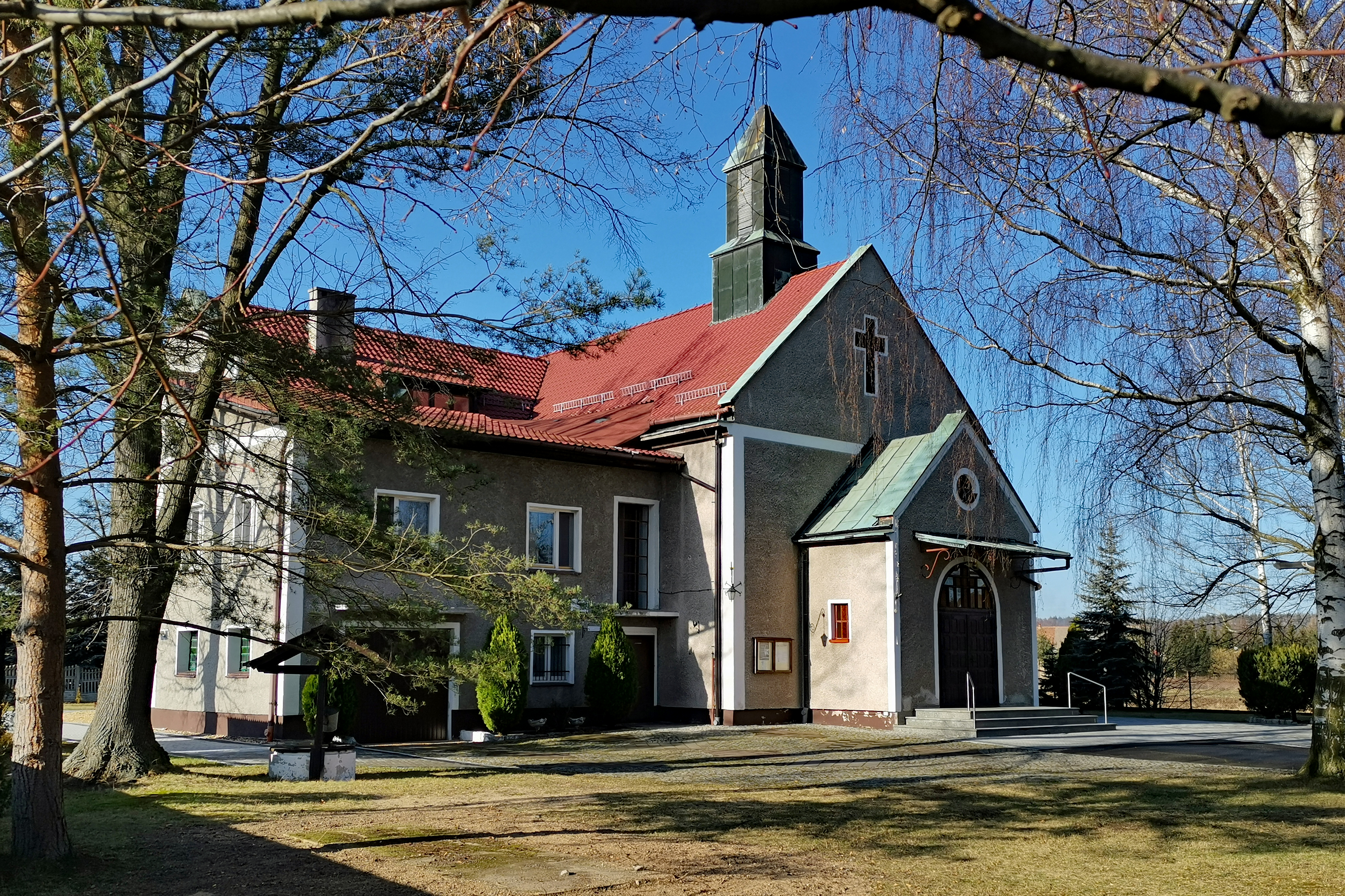 Church in Radogoszcz near Lubań